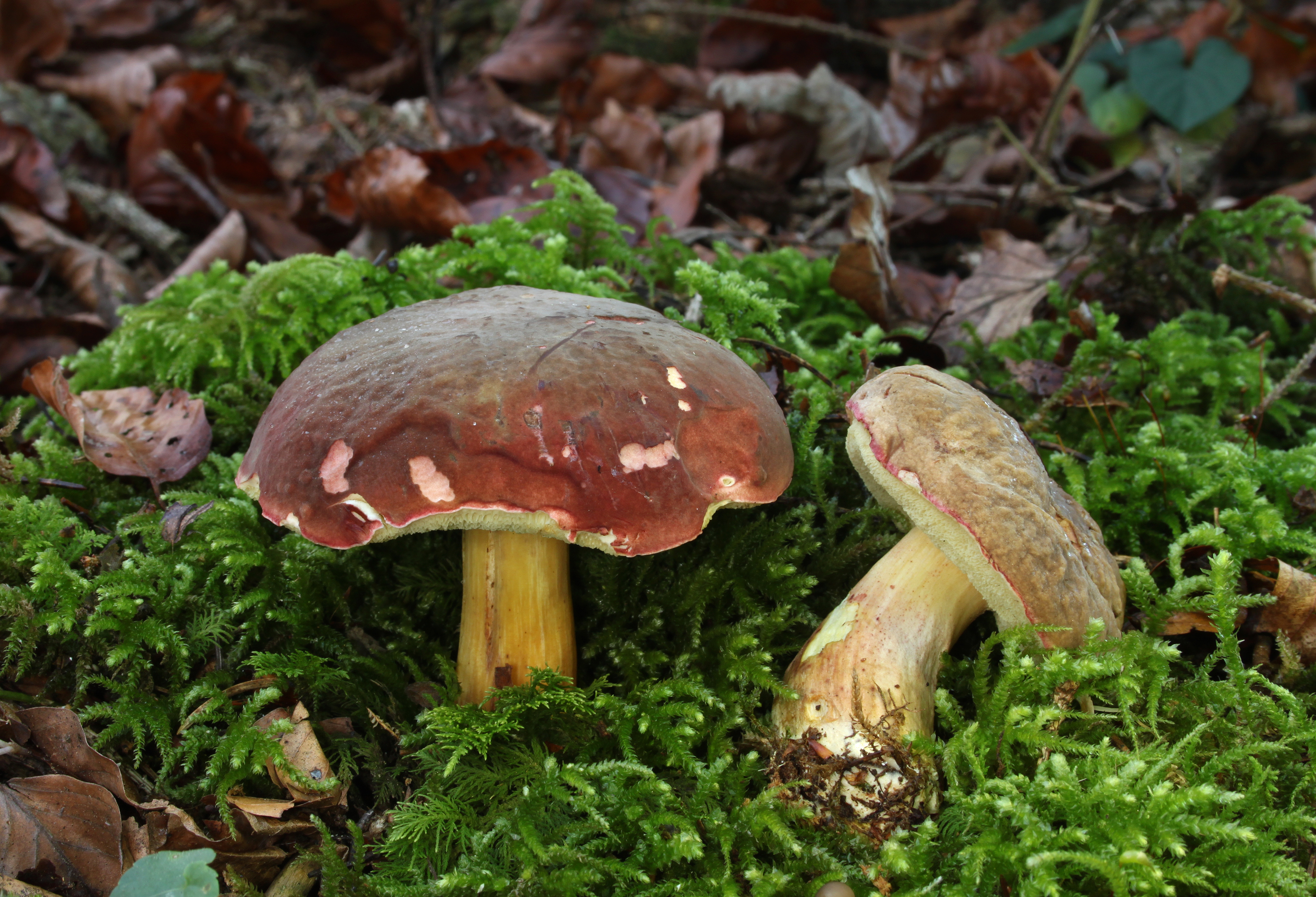 Boletus pruinatus, Family: Boletaceae, Location: Germany, Eggingen